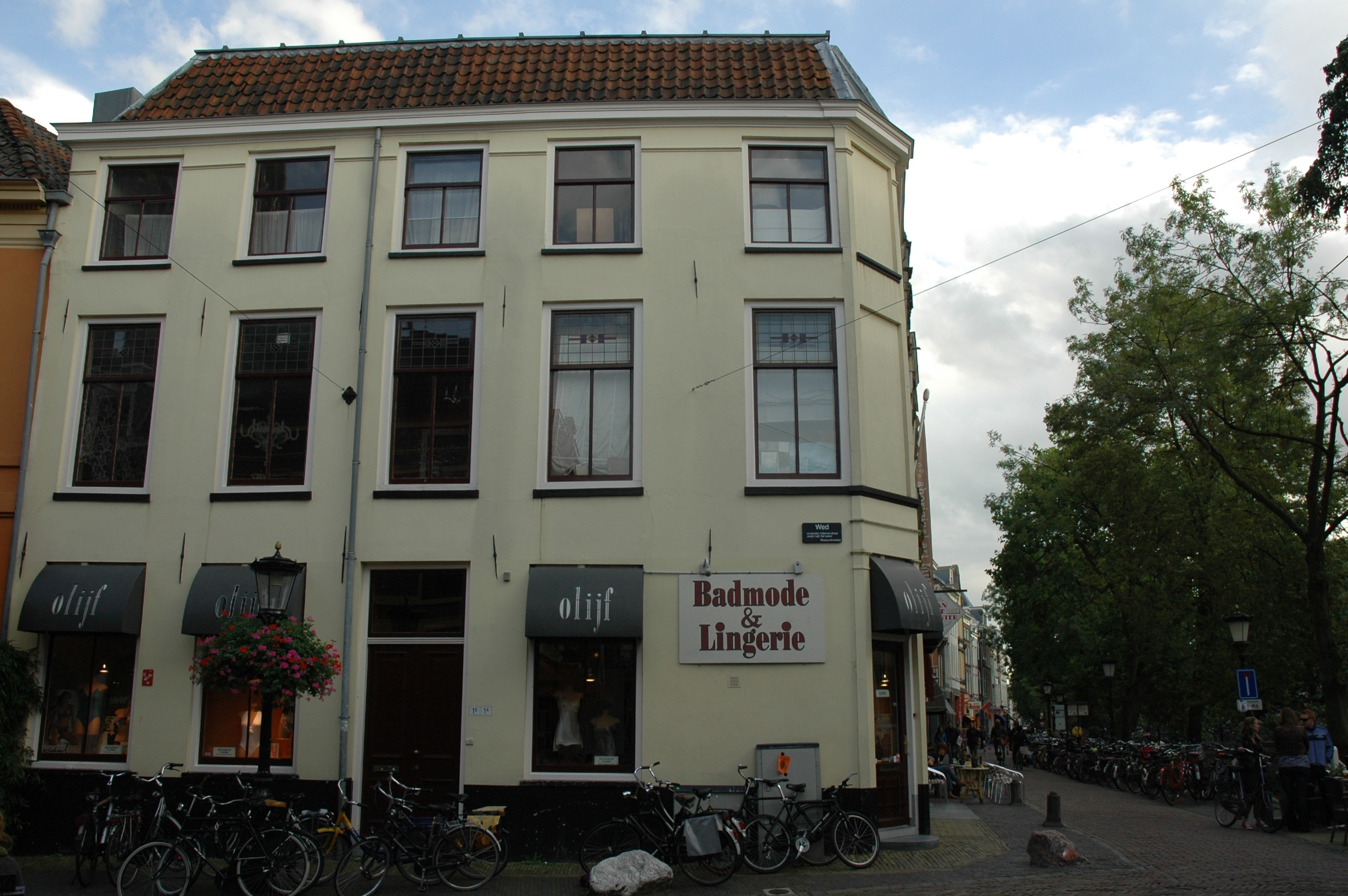 House, Wed 1, Utrecht, The Netherlands